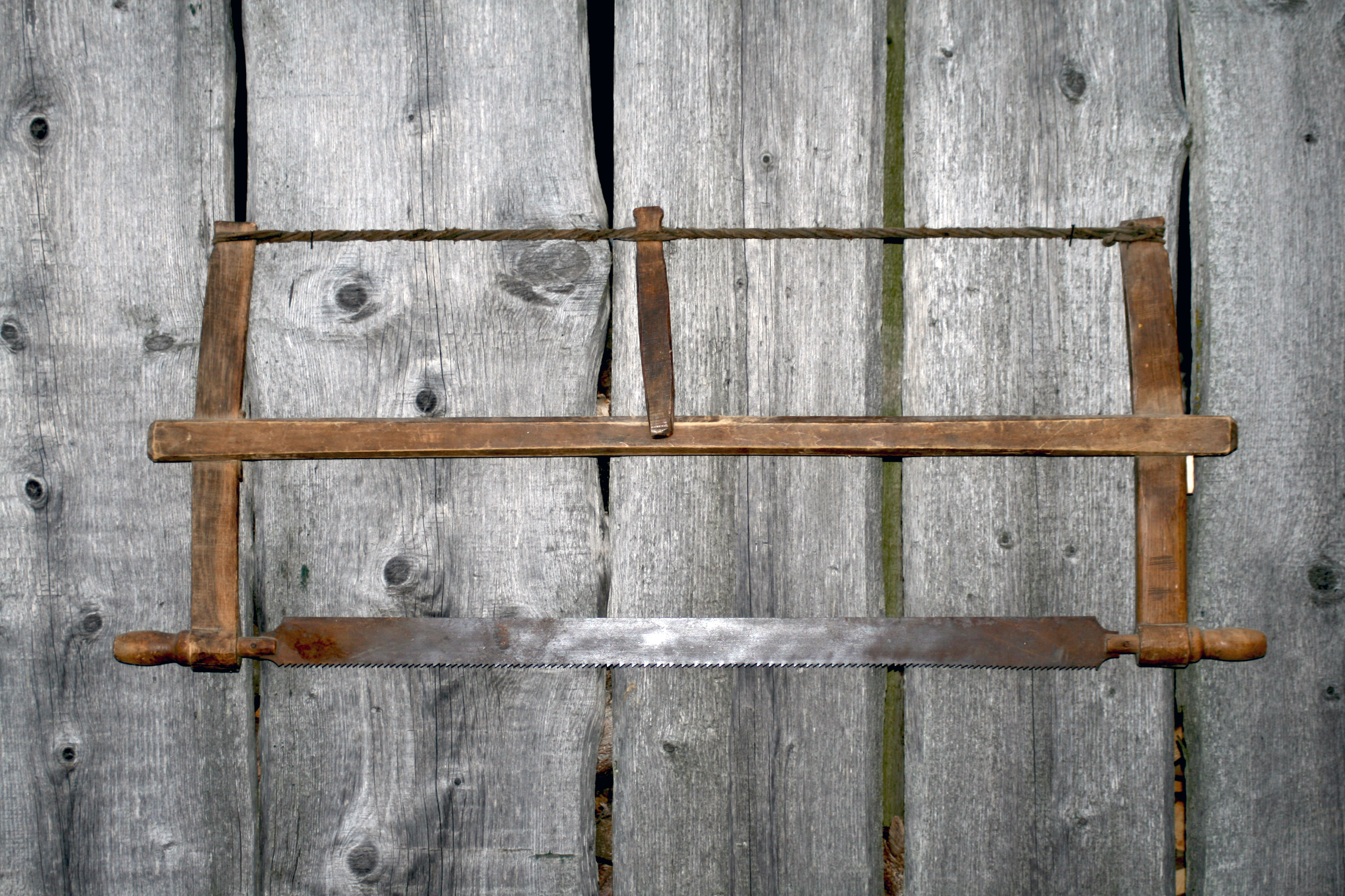 Saw